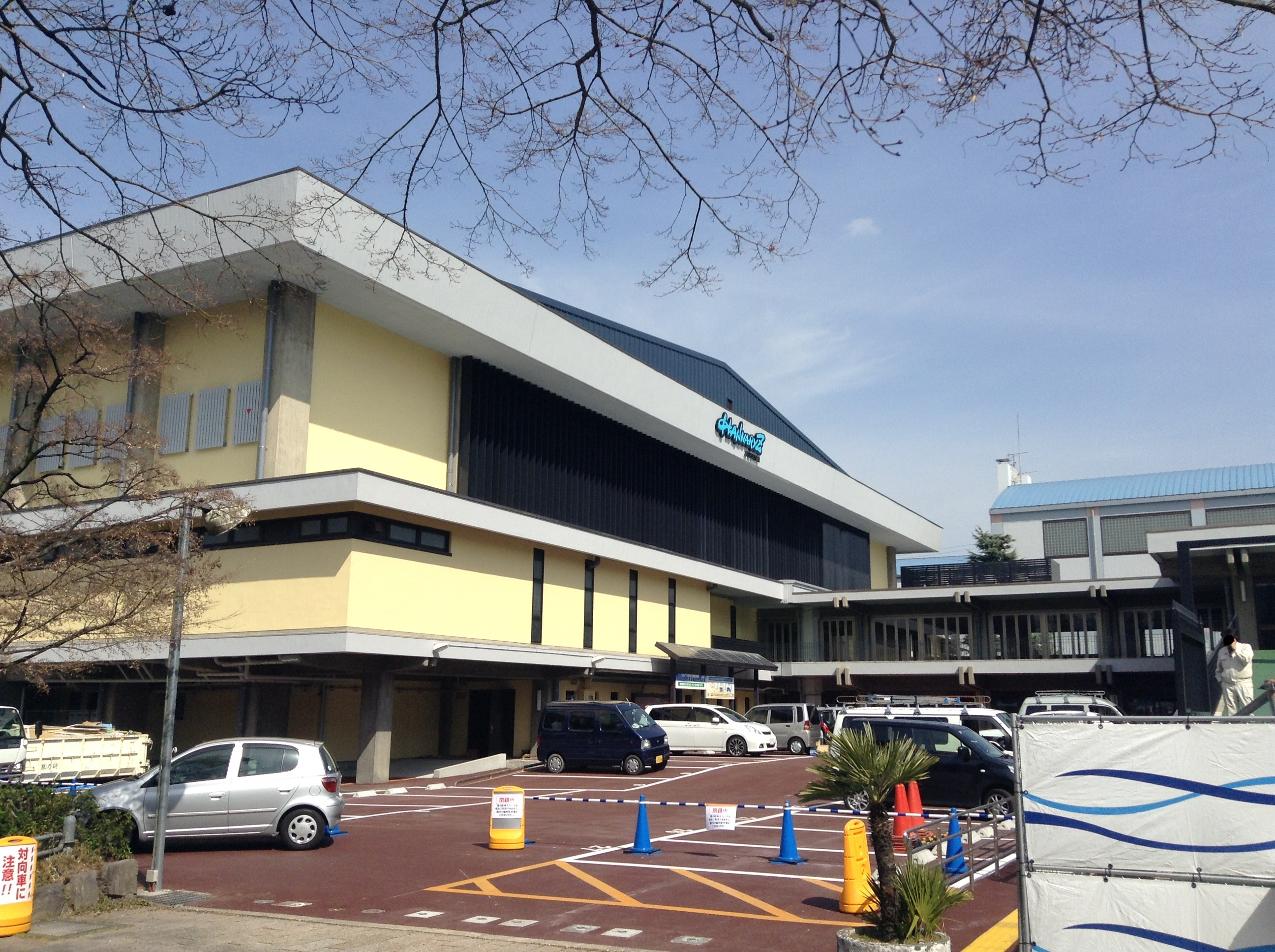 the appearance of Hannaryz arena (after repair)